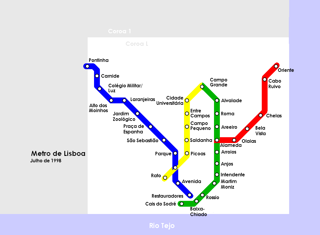 Map of Lisbon Metro in July 1998